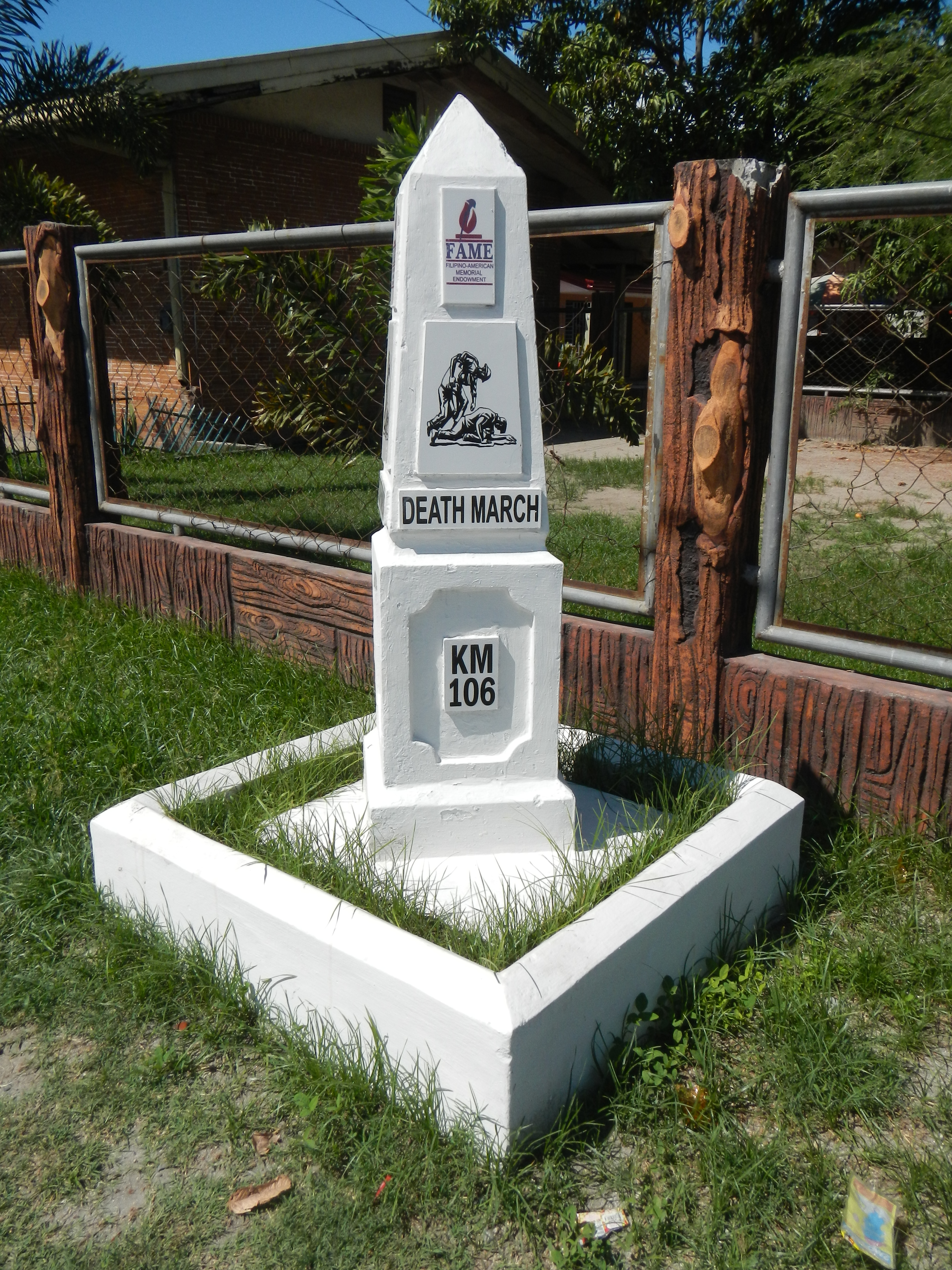 Santo Domingo II Train Station Death March Marker, 1942 Km. 106, (sponsored by the Battling Bastards of Bataan BBB, April 9, 2002, was the "Disembarkation" point of the 60,000 Filipino soldiers cramped in closed boxcars were unloaded to start the second phase of Bataan Death March; 30,000 of these defenders perished during the trip from Abucay and Mariveles, Bataan to San Fernando, Pampanga; the survivors started their journey to Camp O'Donnell in Capas where about 60,000 Filipino soldiers who were camped and eventually unloaded to start the second phase of the tragic Death March beside the Barangay Hall Complex Compound in Barangay Santo Domingo Pangadua (Santo Domingo 2nd poblacion), Capas, Tarlac).